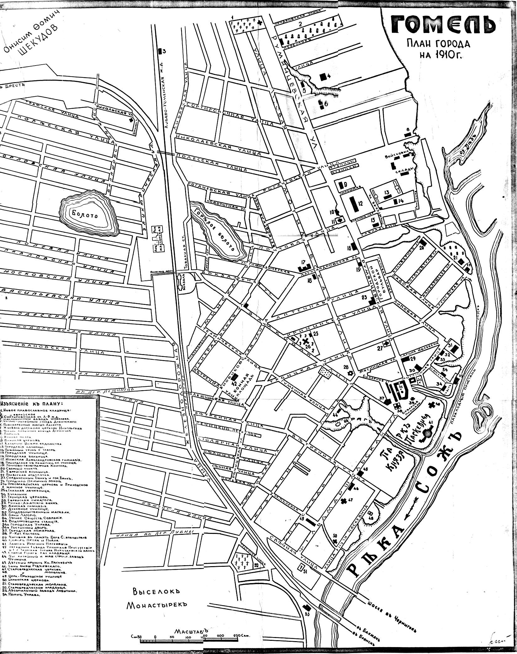 Plan of the Gomel city (1910)